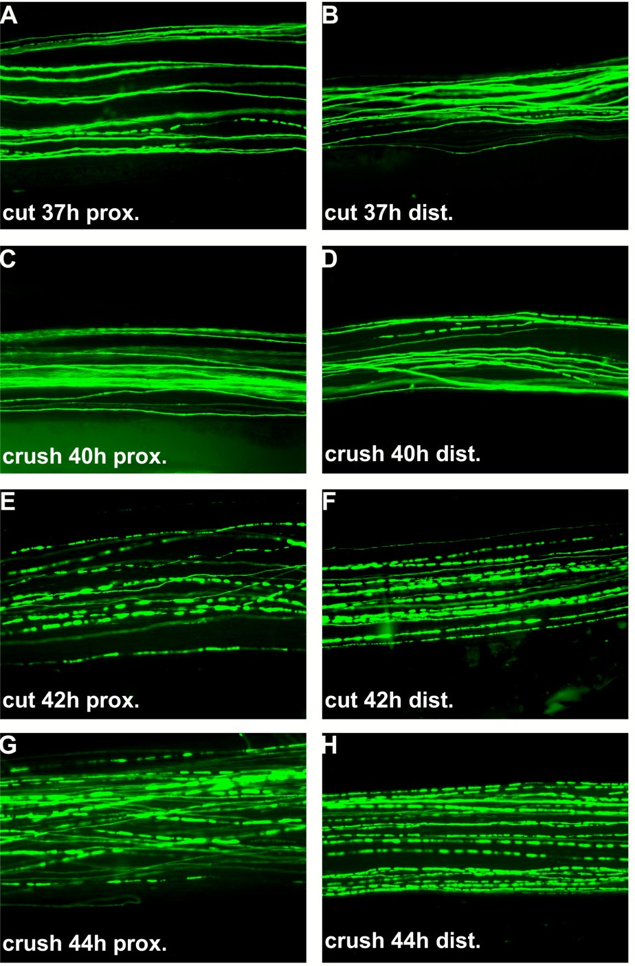 After a latency period Wallerian degeneration following cut and crush injury starts abruptly in single axons and involves total fragmentation of axons within few hours A-D: Conventional fluorescence micrographs of a ~2.5 cm long peripheral nerve stump (sciatic-tibial nerve segment) wholemount preparation at the proximal (A) and distal site (B) 37 h after cut injury with few individual fluorescent axons broken into fragments. A small number of axons fragmented at the proximal (C) and distal site (D) of a peripheral nerve stump wholemount preparation could also be detected 40 h following crush injury. E-H: Conventional fluorescence micrographs of a ~2.5 cm long peripheral nerve stump (sciatic-tibial nerve segment) wholemount preparation at the proximal (E) and distal site (F) 42 h after cut injury with most YFP labelled axons fragmented. A similar picture with a majority of axons degenerated is evident at the proximal (G) and distal end (H) of a peripheral nerve stump wholemount preparation 44 h after crush injury. YFP fluorescence has been pseudo-coloured green with the applied imaging software (MetaVue, Universal Imaging Corporation). Magnification: 100 ×